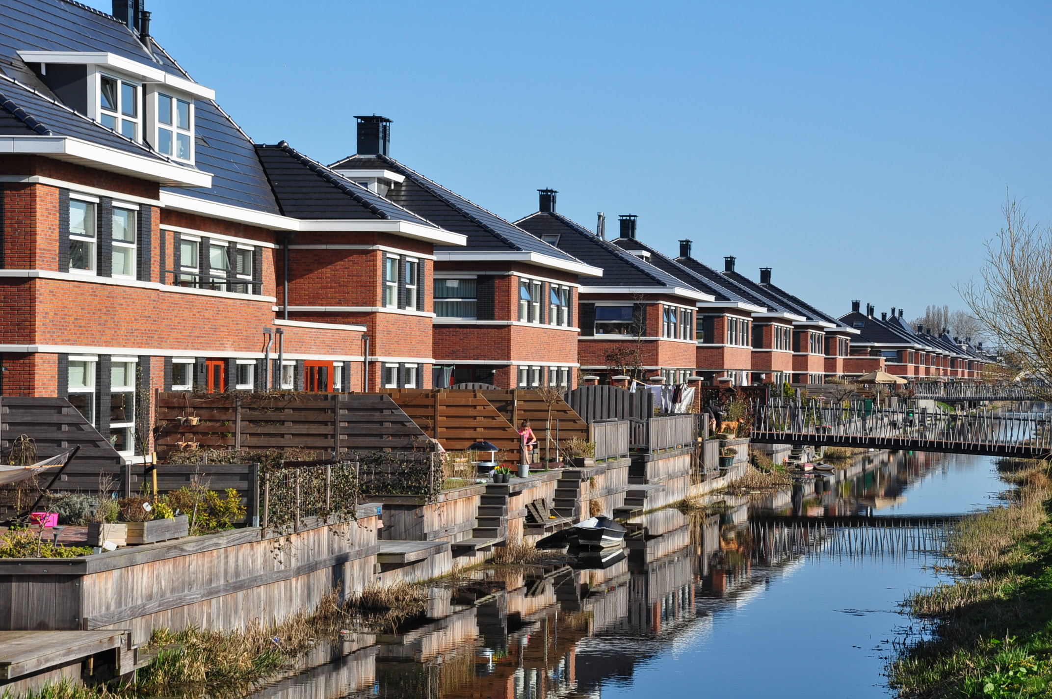 The Boekelermeer Street in The Hague (Netherlands). A typical example of upmarket, yet monotonous Dutch housing, driven by property developers.